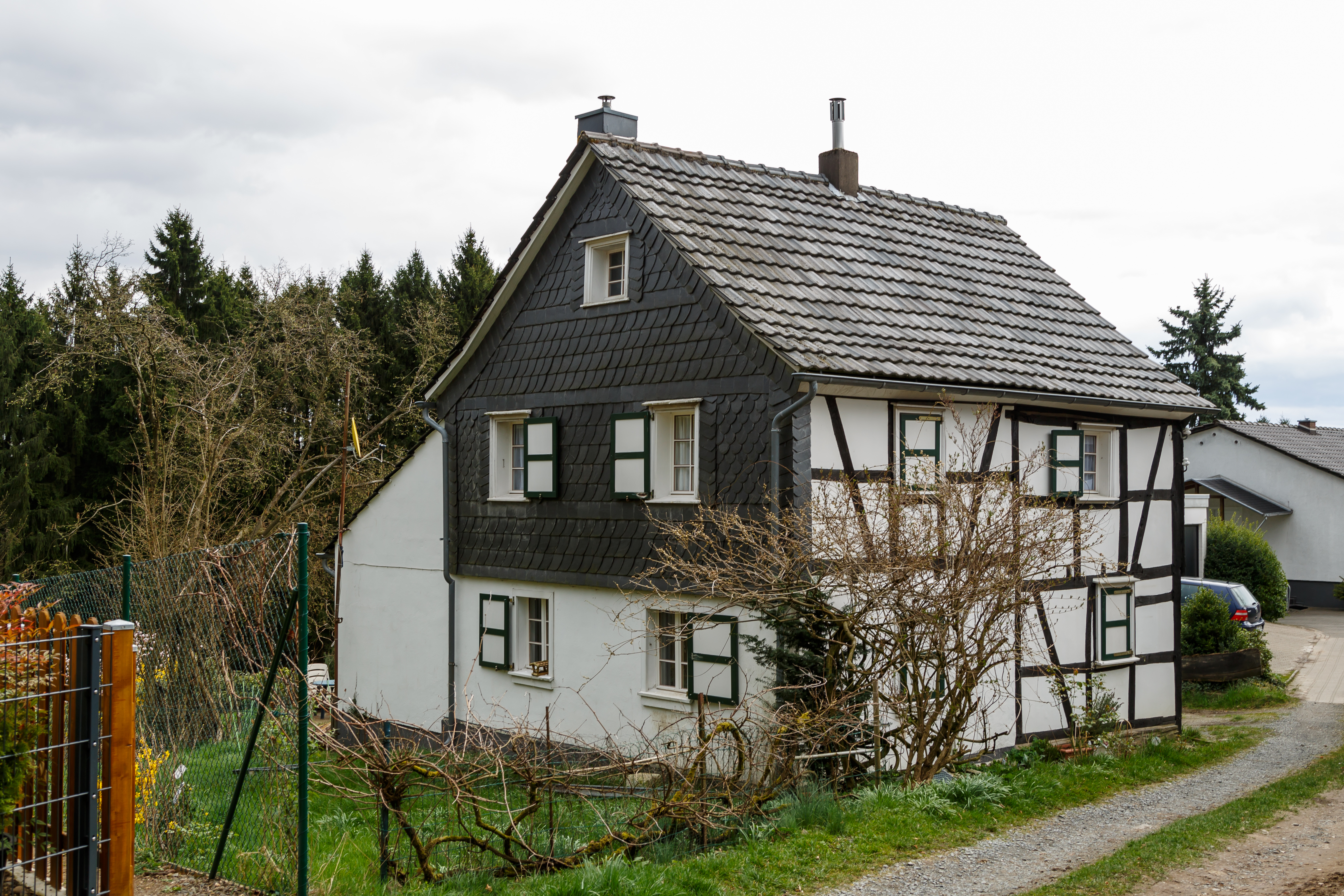 Rösrath, Germany: Listed monument 78 in Heideweg 76 of Forsbach This is a photograph of an architectural monument.